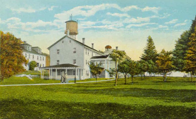 General View of Canterbury Shaker Village, East Canterbury, New Hampshire